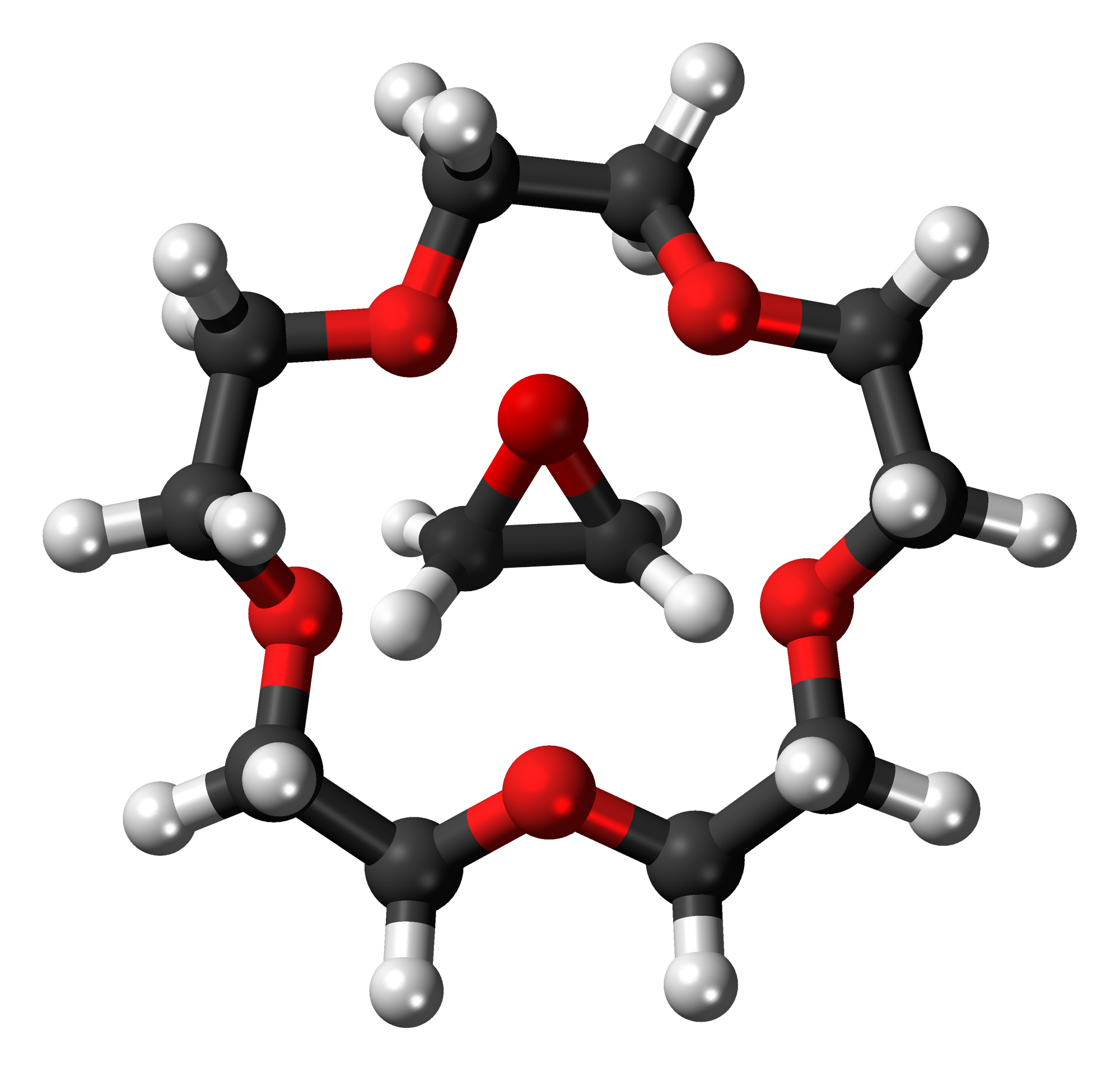 Ball-and-stick models of the crown ether 15-crown-5 and its monomer (ethylene oxide). File created from File:15-Crown-5-3D-balls.png by User:Jynto and File:Ethylene-oxide-from-xtal-3D-balls.png by User:Benjah-bmm27 with the Linux Gimp editor.